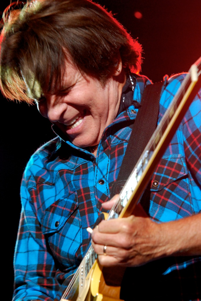 John Fogerty(Creedence Clearwater Revival) at the 2011 Cisco Ottawa Bluesfest. By: Brennan Schnell